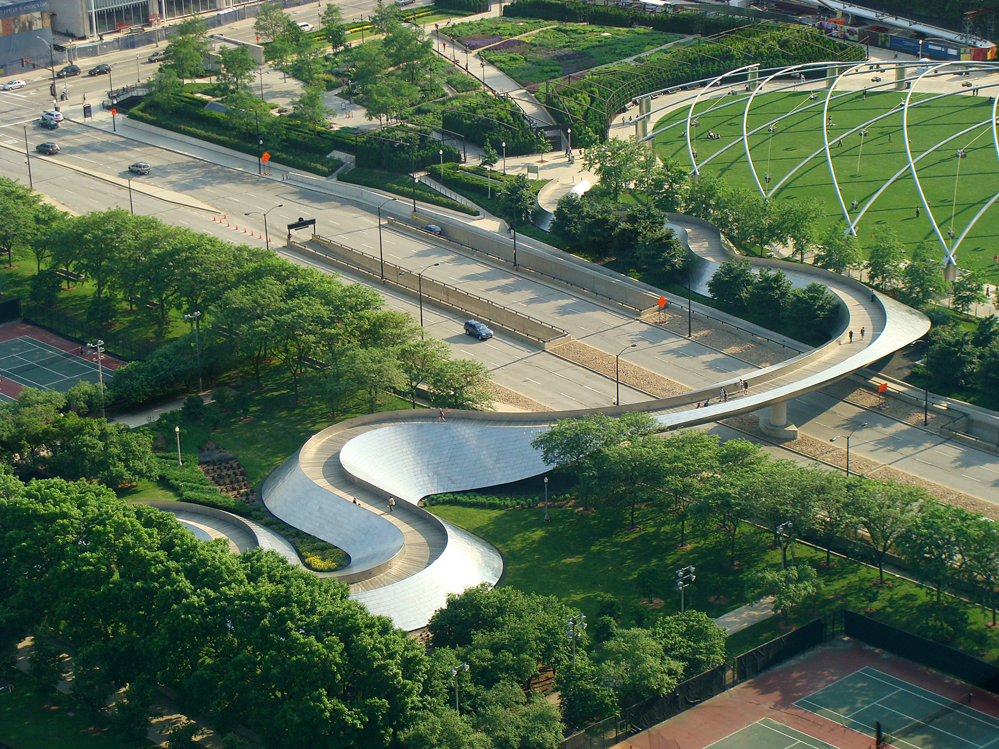 BP Pedestrian Bridge from The Buckingham Edited by (Saturation, contrast correction + sharpened): Arad